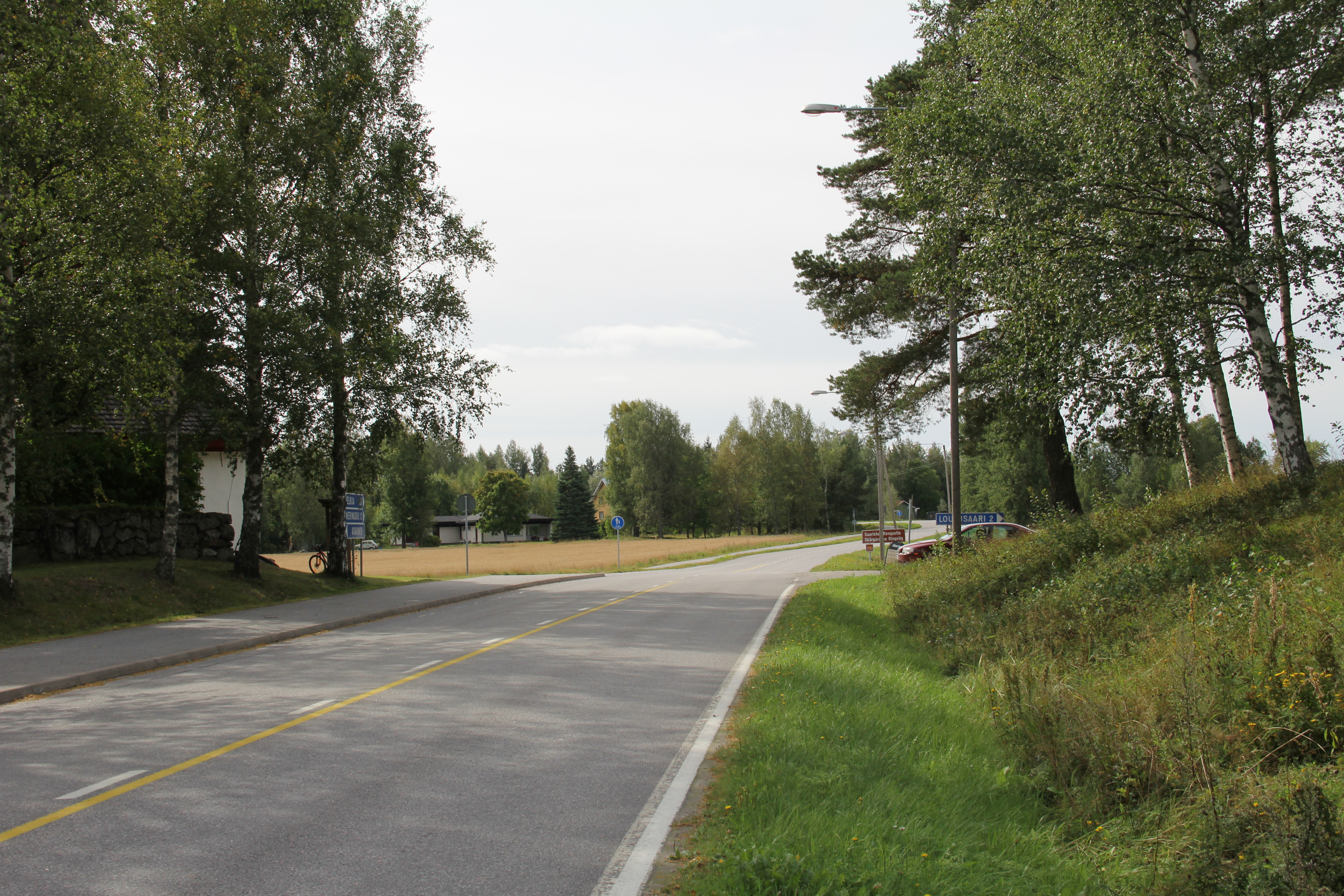 Connecting road 1930, Askainen, Masku, Finland. Close to Askainen church, towards southwest.